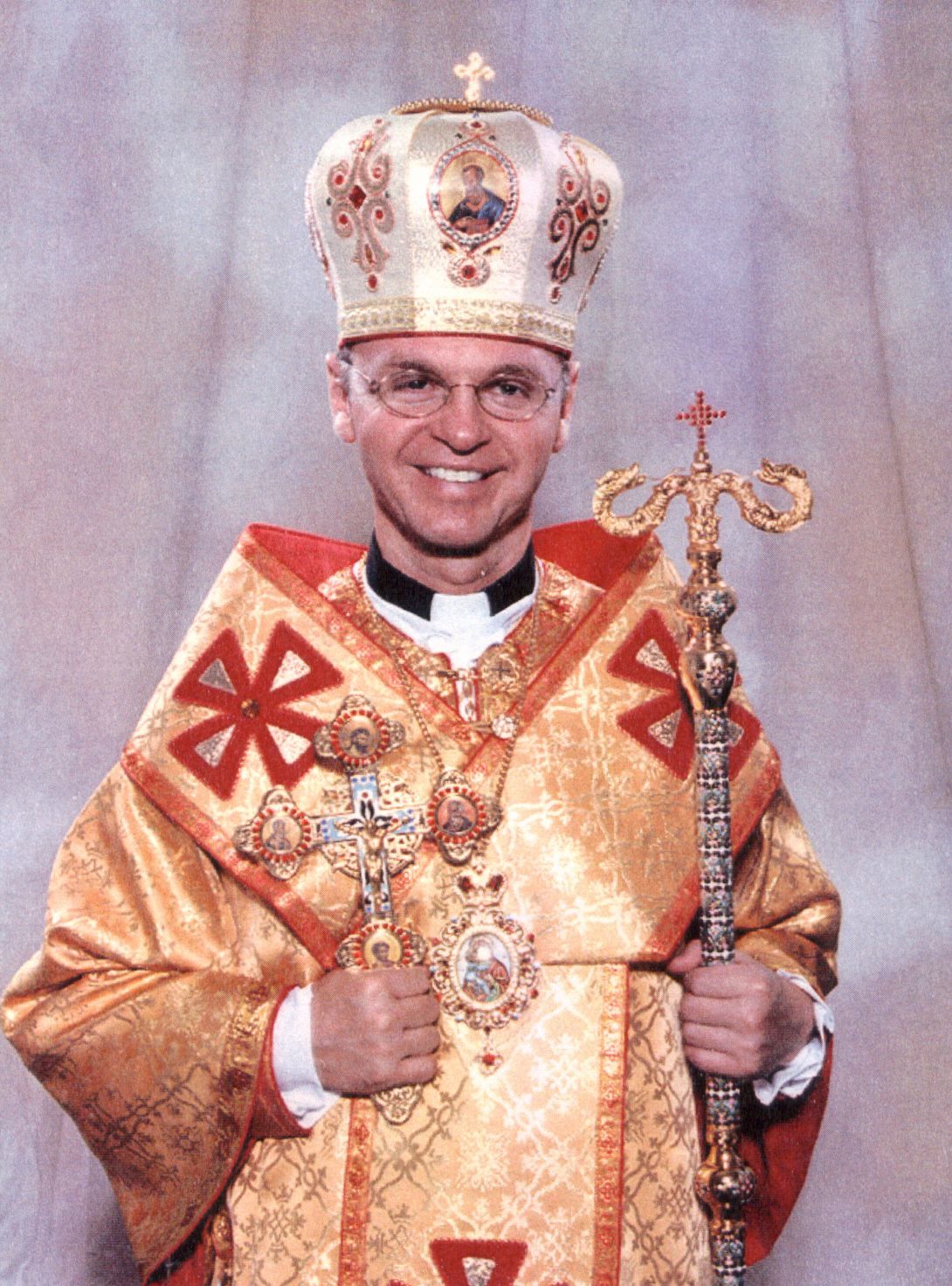 His Grace David Motiuk, Bishop of the Ukrainian Catholic Eparchy of Edmonton